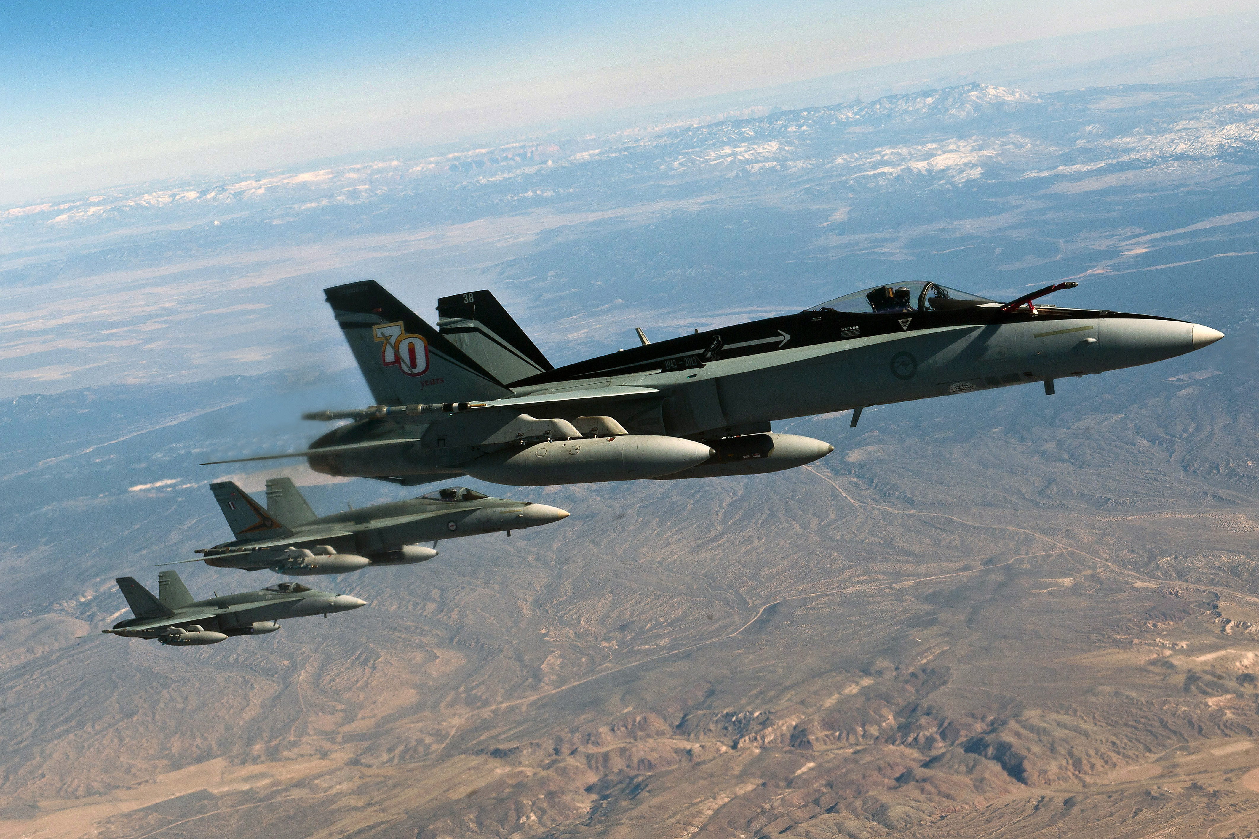 A three-ship of F/A-18 Hornets, Royal Australian Air Force, fly in a training mission during Red Flag 12-3 March 9, 2012, over the Nevada Test and Training Range. Members of the RAAF participate in the Red Flag exercise every other year.